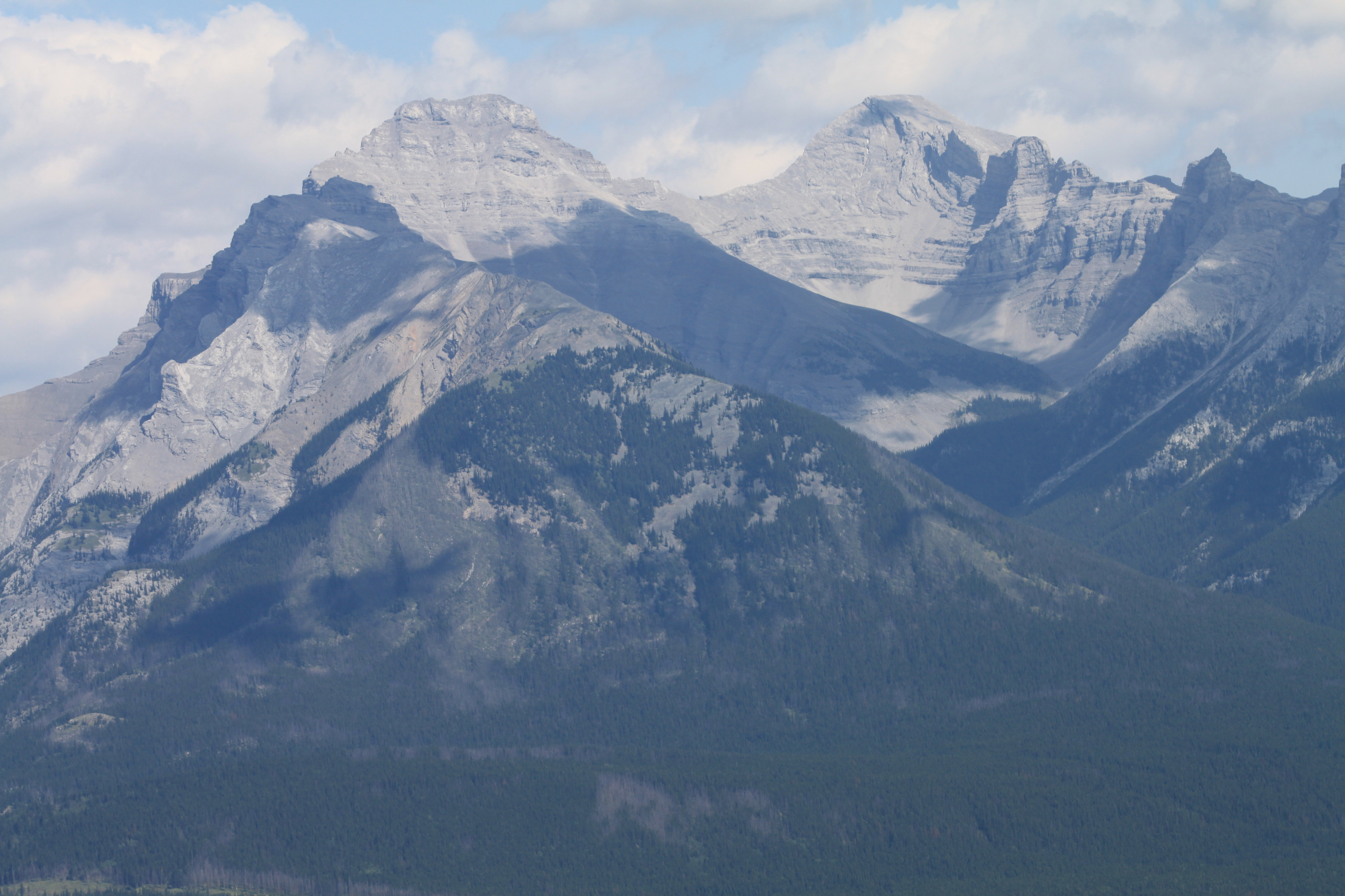 Mount Inglismaldie (left) and Mount Girouard (right), Fairholme Range, Banff National Park, Alberta, Canada. View is from Stoney Squaw Mountain.